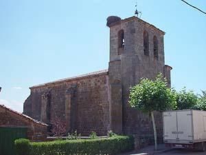 IGLESIA PARROQUIAL DE LA ASUNCIÓN